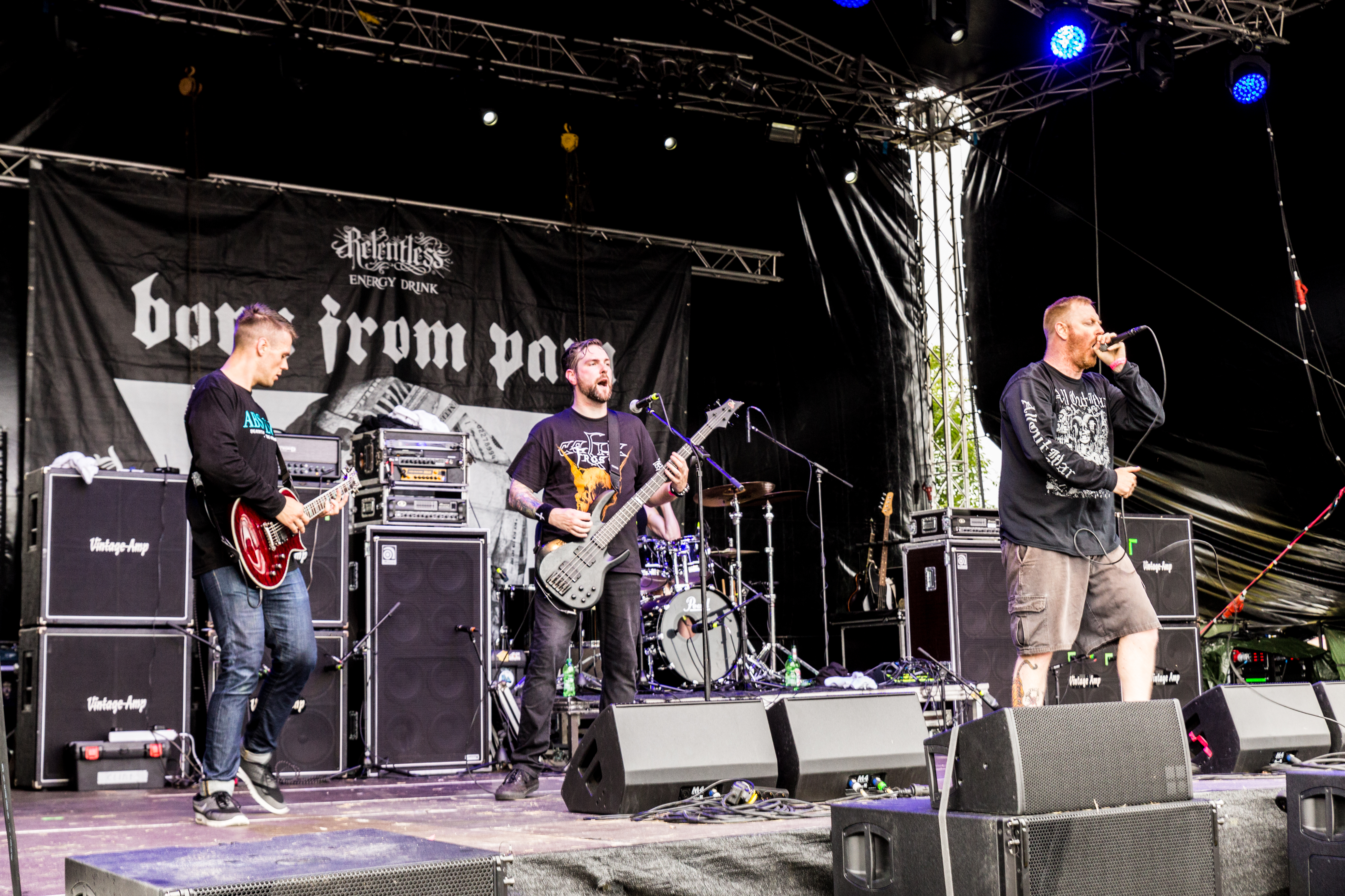 The Dutch hardcore band Born from Pain at the Metal Frenzy 2017 in Gardelegen/Germany.